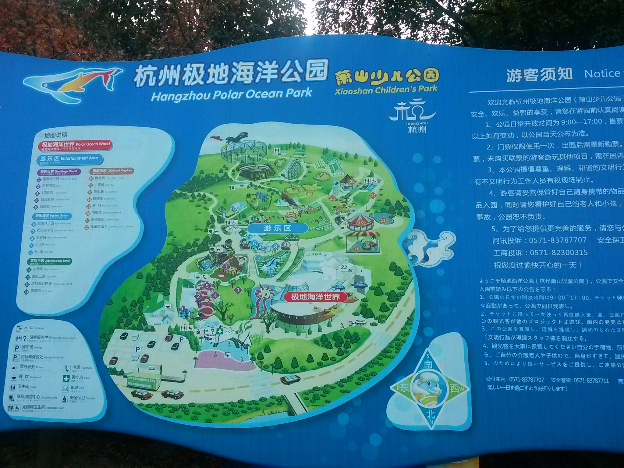 Hangzhou Polar Ocean Park